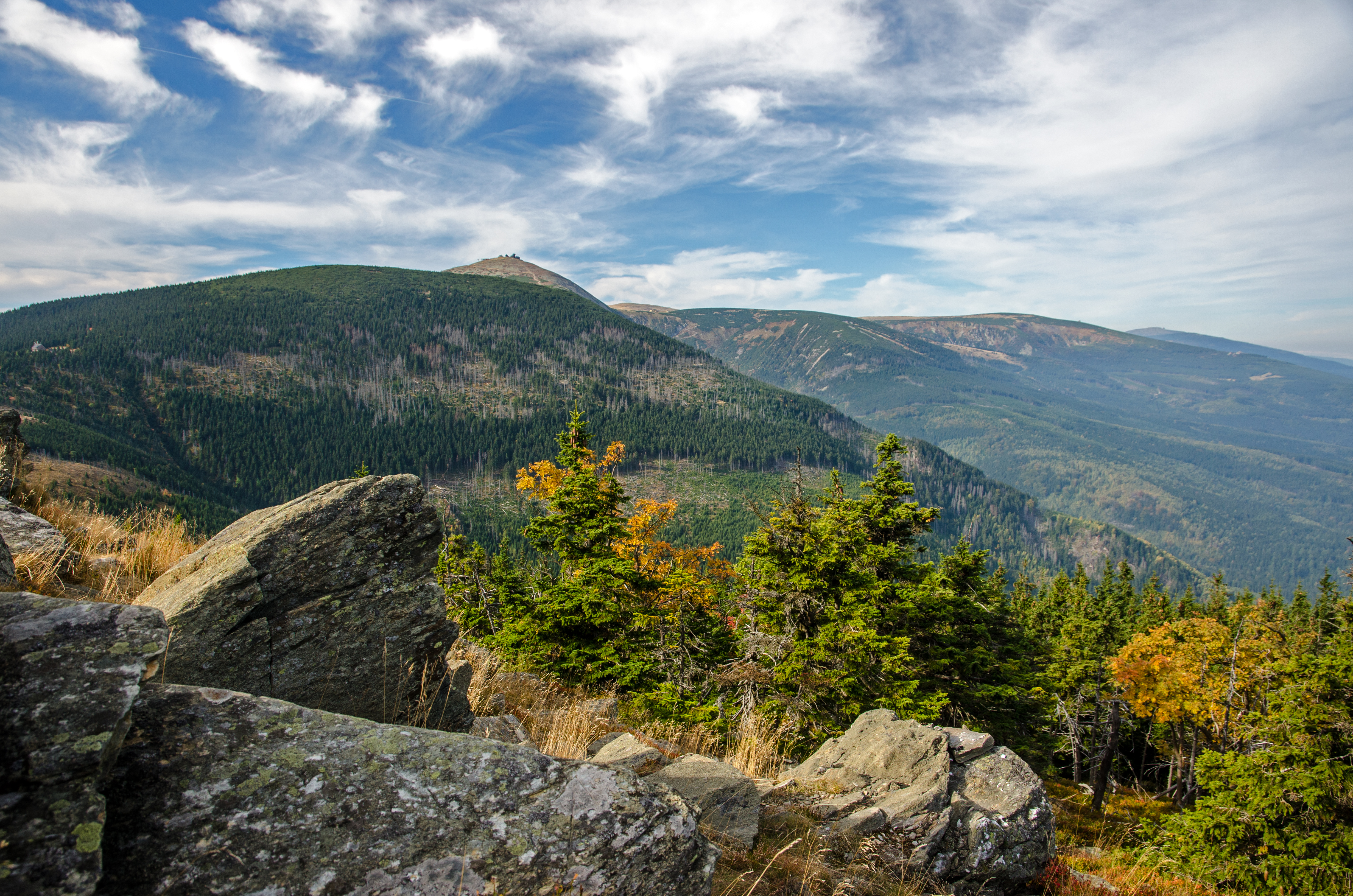 Krkonose Karkonosze Biosphere Reserve, Czech Republic Poland This is an image of the Biosphere Reserve: Krkonose/Karkonosze